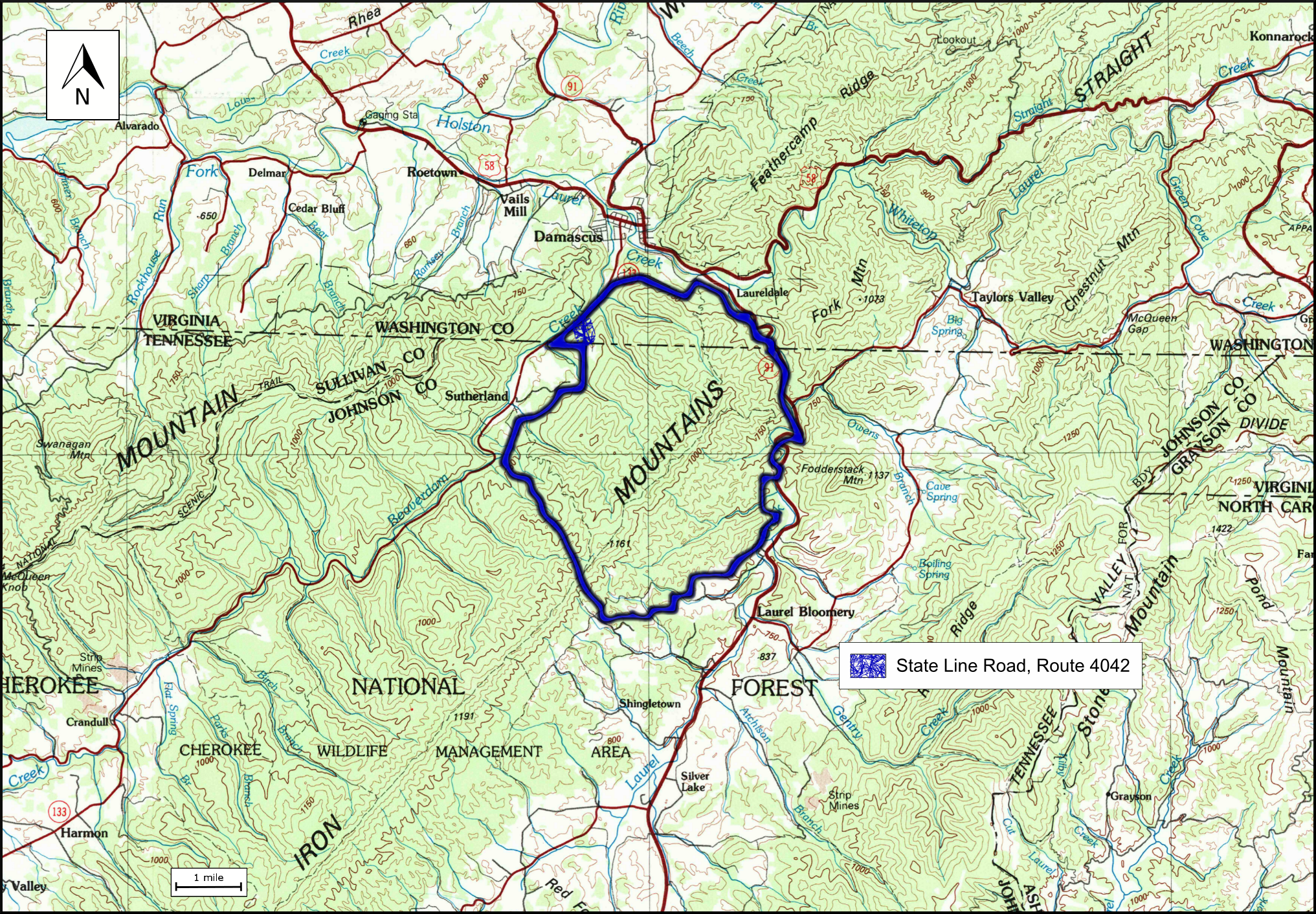 Boundary of the London Bridge Branch wildland in the Jefferson National Forest and Cherokee National Forest as identified by the Wilderness Society